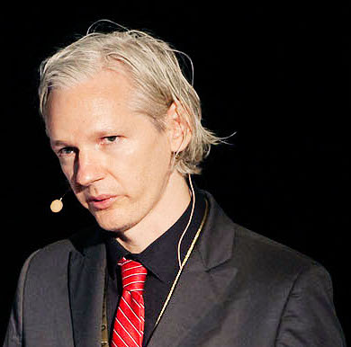 Julian Assange at New Media Days 09 in Copenhagen.